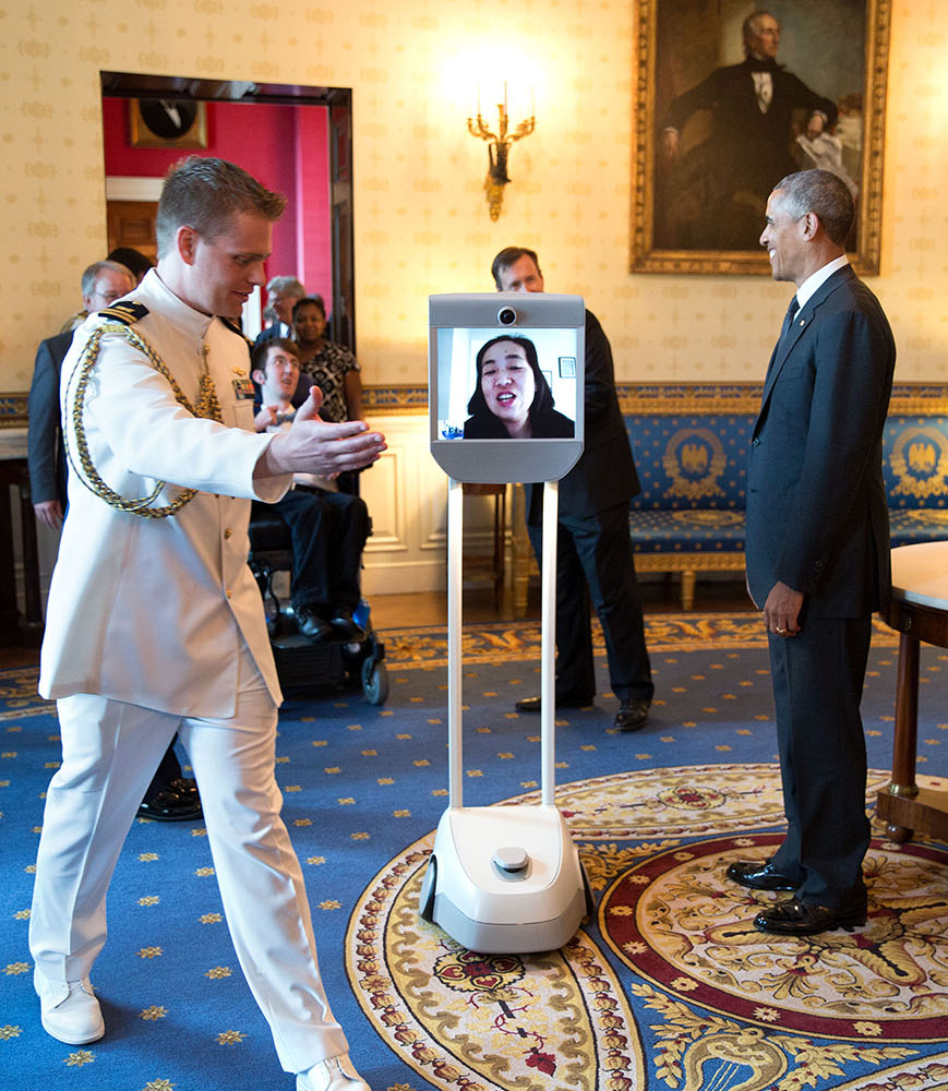 July 20, 2015 "During photo lines, there's this routine called 'push and pull.' One social aide helps push the next guest towards the President and another helps pull them out of the room. During a photo line to commemorate the 25th anniversary of the Americans With Disabilities Act, Alice Wong, Disability Visibility Project Founder, participated via robot. So after her photograph had been taken, social aides gestured to 'pull' her out of the room as the next guest entered." (Official White House Photo by Pete Souza)